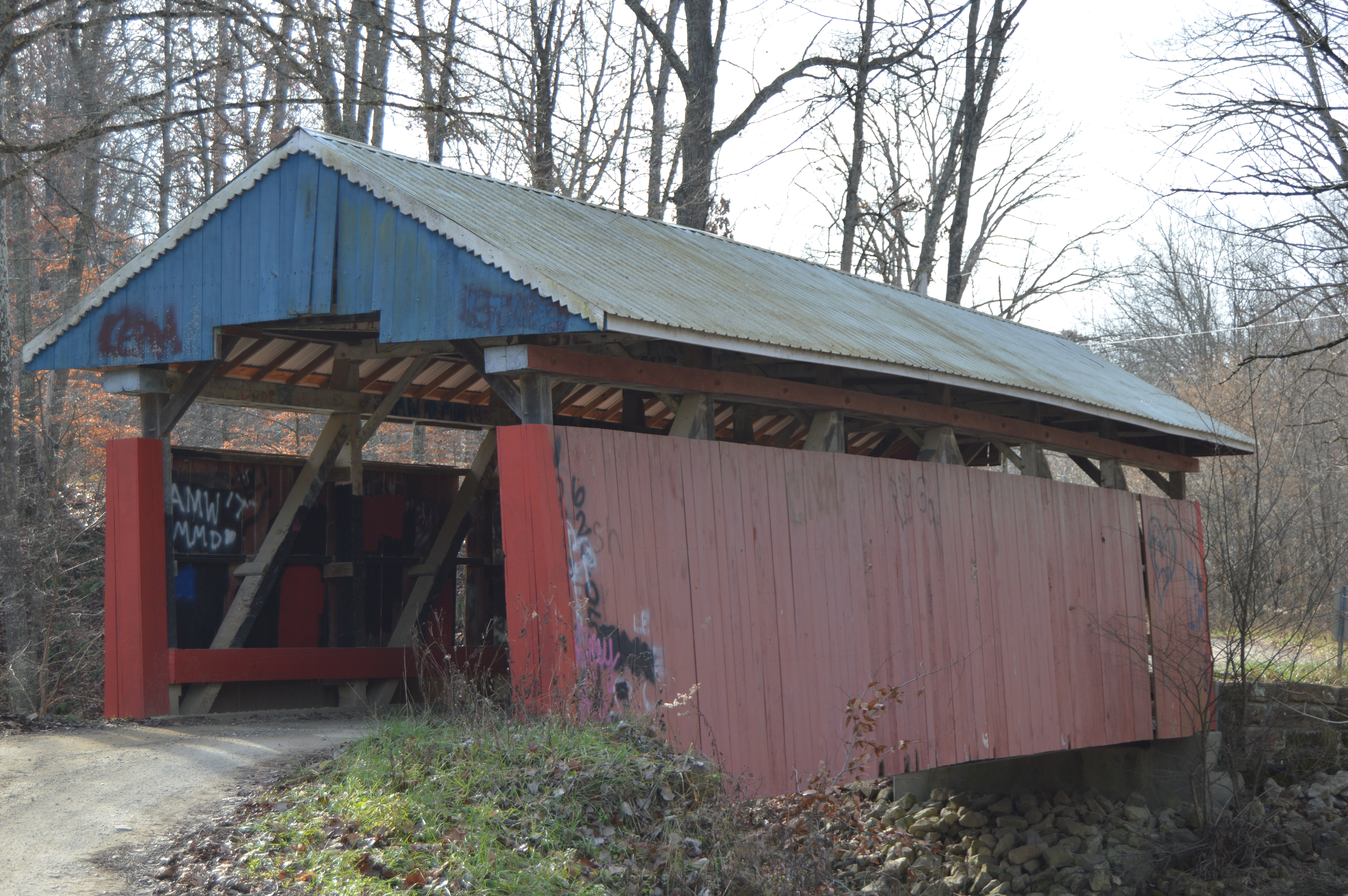 Northeastern portal and northwestern (downstream) side of the Jack's Hollow Covered Bridge, which carries Township Road 108 over Kent Run in the northeastern corner of Madison Township, Perry County, Ohio, United States. It was built in 1879.